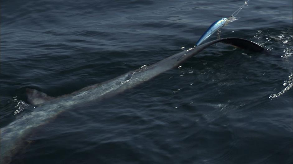 Common thresher shark (Alopias vulpinus) hooked by the tail off southern California.